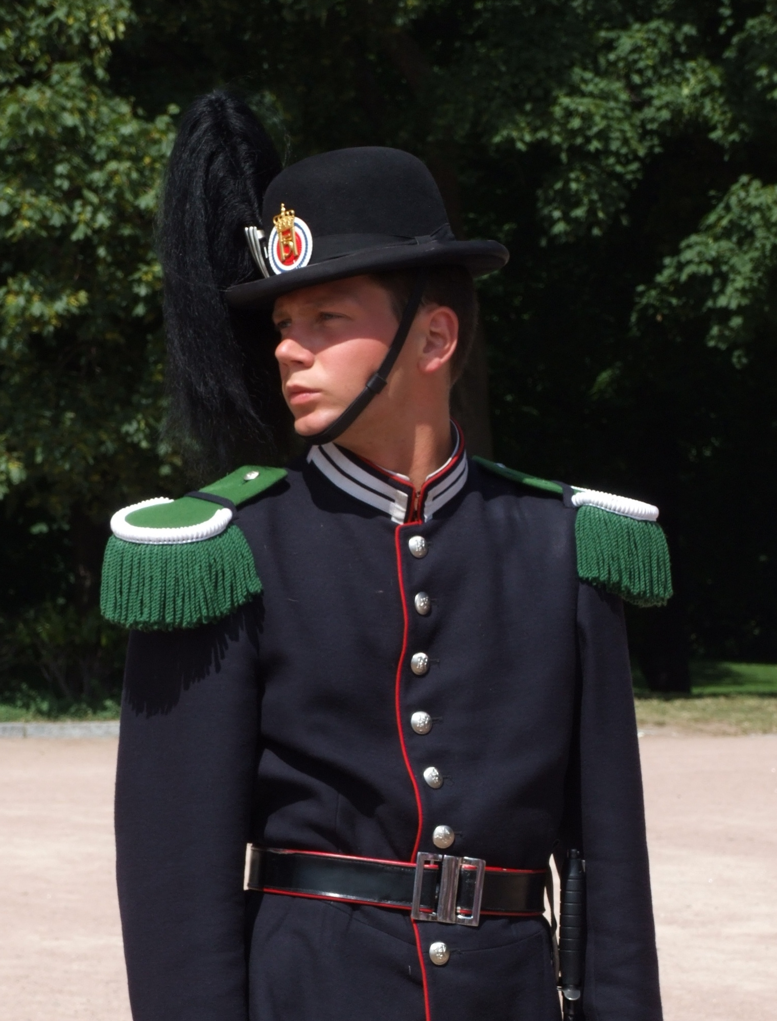 Royal Guardsman (Hans Majestet Kongens Garde) in Oslo